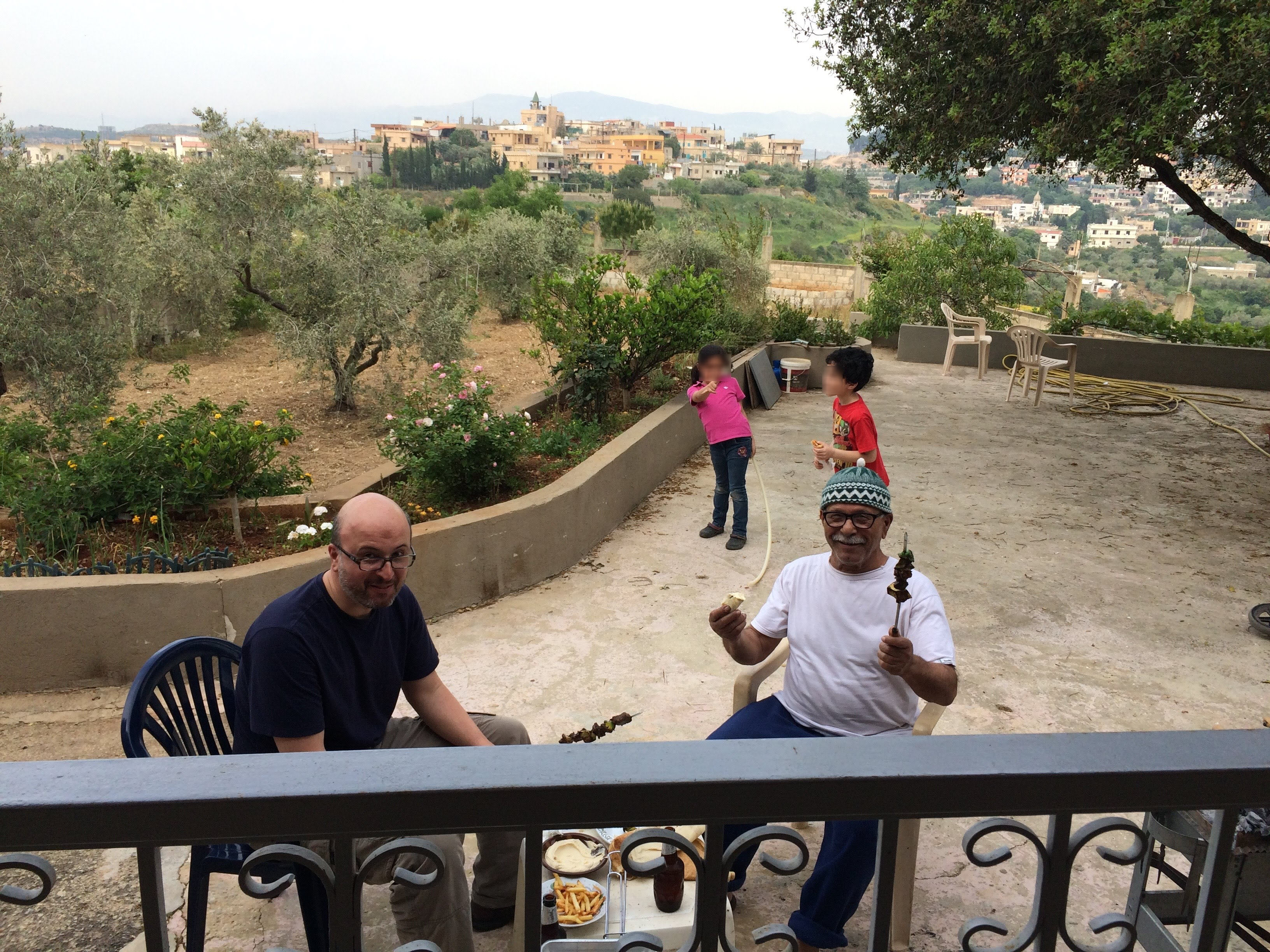 Father and son having good times in the town of Nmairiyeh